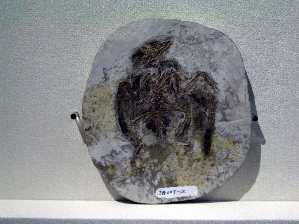 Eoenantiornis buhleri fossil displayed in Hong Kong Science Museum